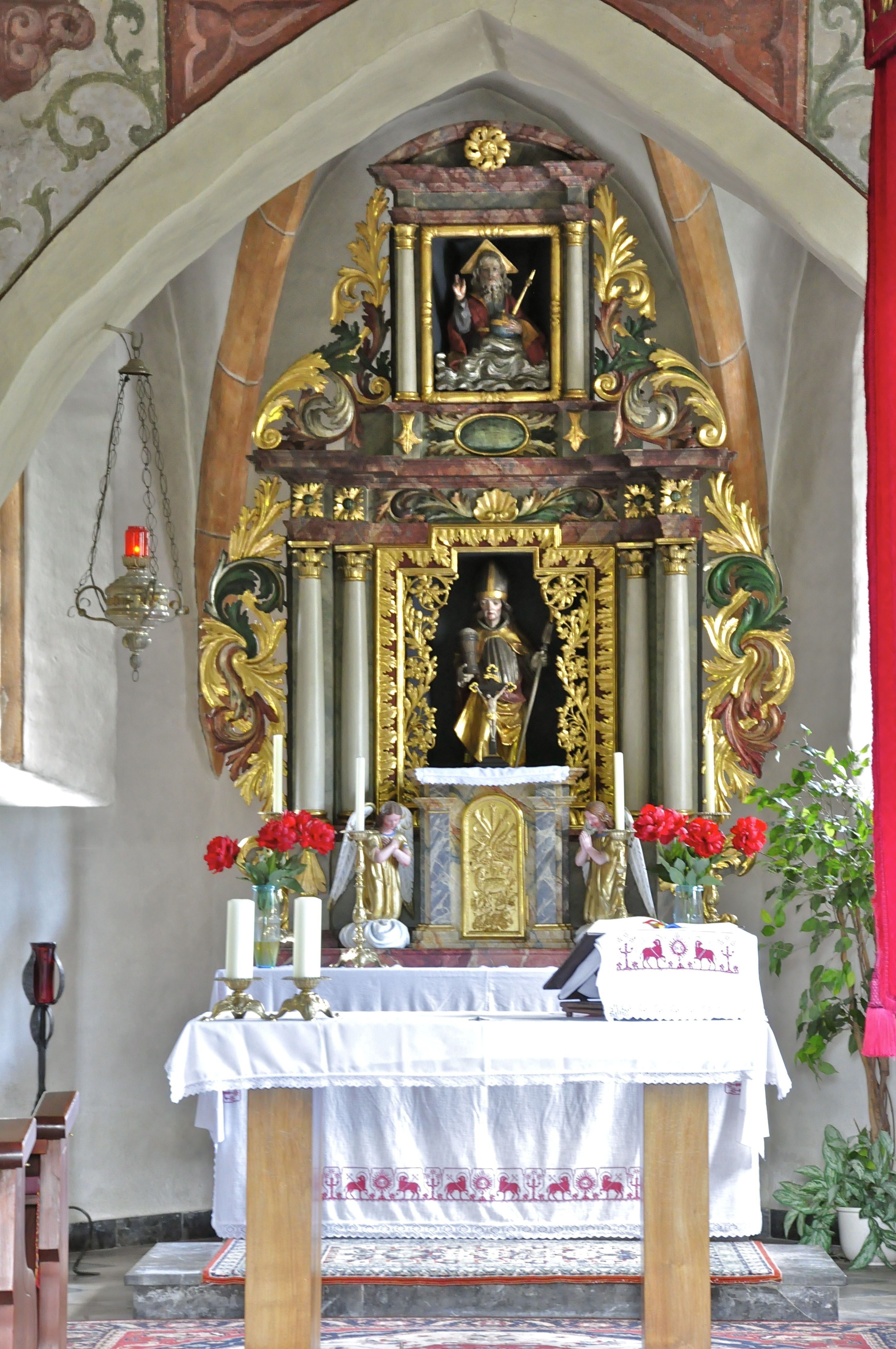 Baroque high altar in the subsidiary church Saint Ruprecht at Poeckau, municipality Arnoldstein, district Villach Land, Carinthia / Austria / EU